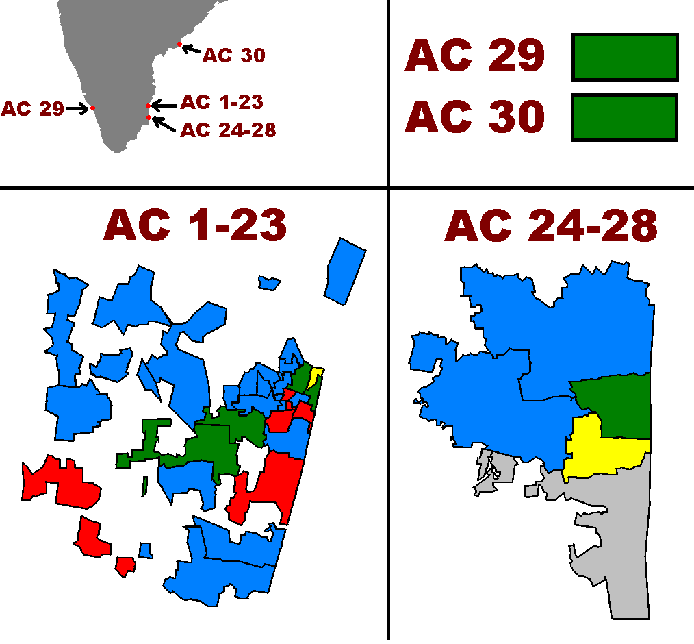 Results in the Puducherry assembly election. Results as per . Green = INC, Yellow = DMK, Red = AIADMK, Blue = AINRC, Grey = Independent